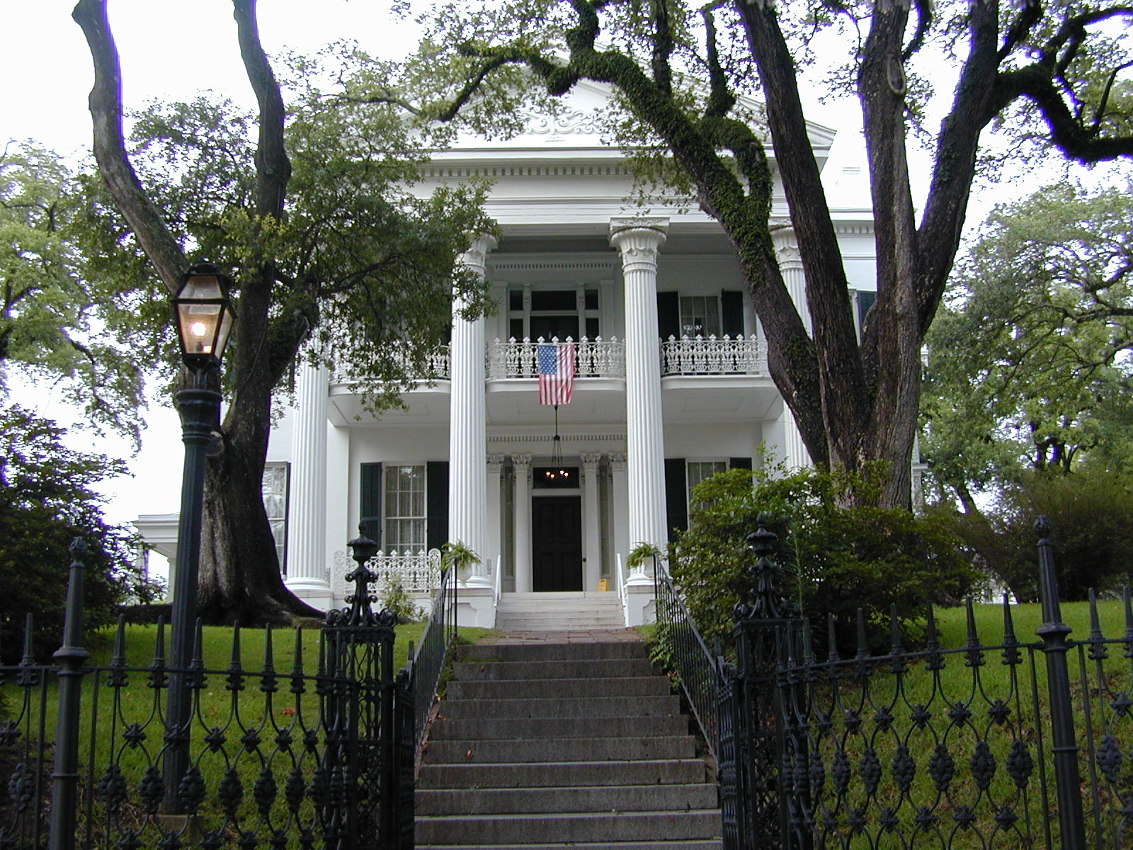 Stanton House, Natchez, Mississippi